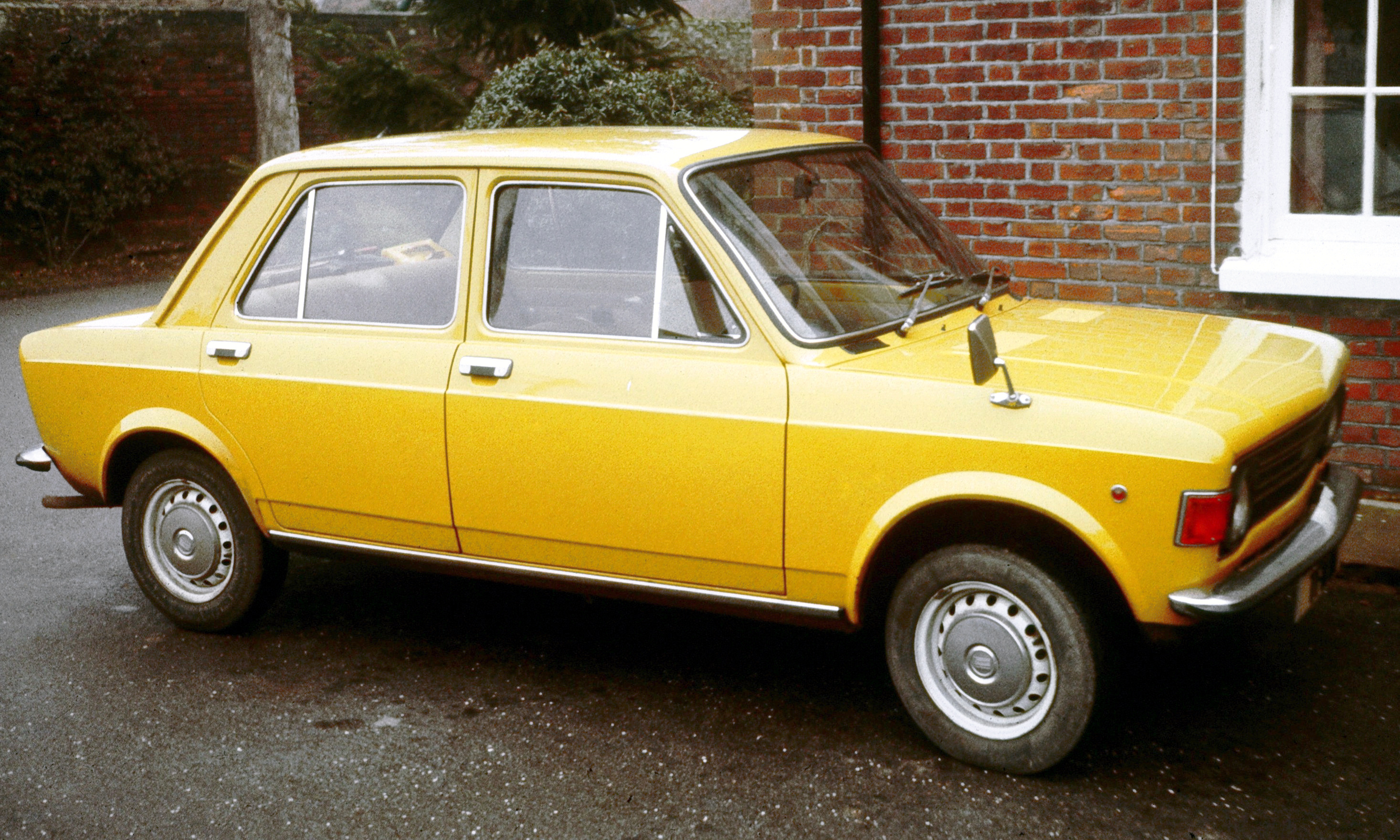 Fiat_128_early_example_4_door_Kent